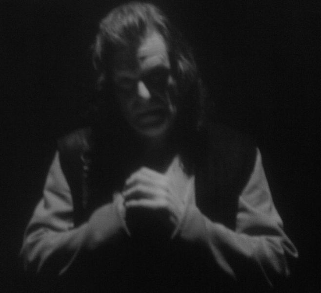 Henri van Zanten, the Master of the Scream, in the 2011 Klingon-laguage opera ’u’ The lighting is a bit poor but that is because of the low quality of my mobile phone camera